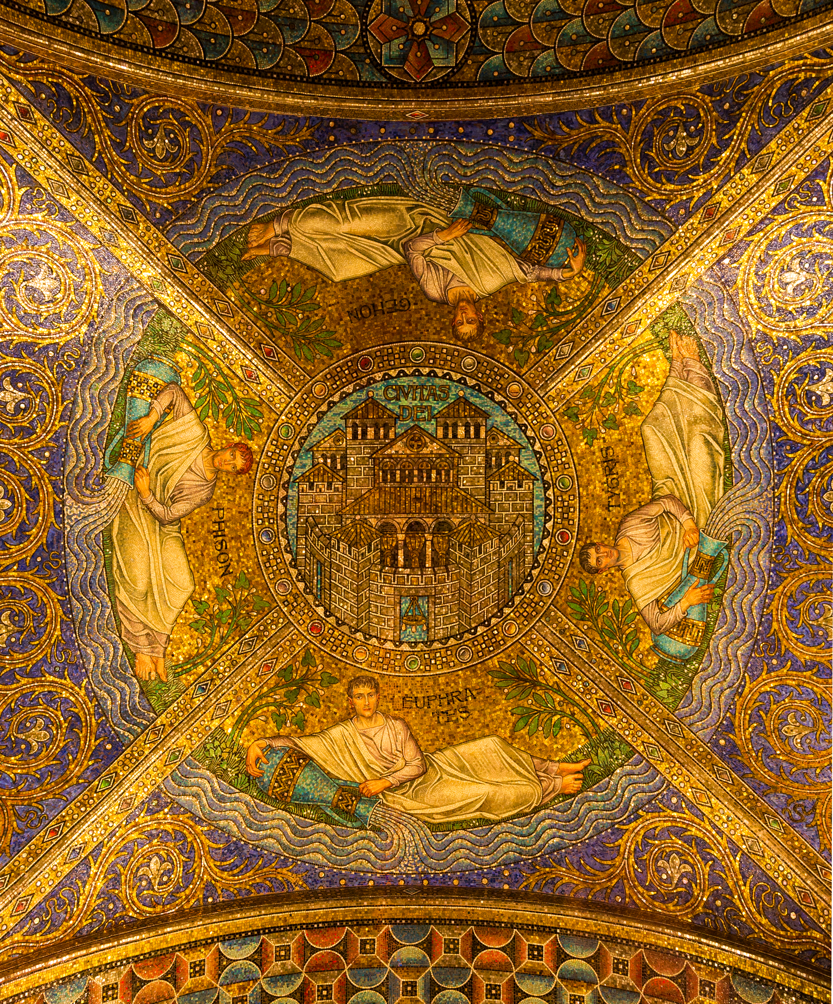 "Civitas Dei" (the City of God), Neo Byzantine style mosaic of the ceiling at the entrance of the Cathedral of Aachen, North Rhine-Westphalia, Germany.